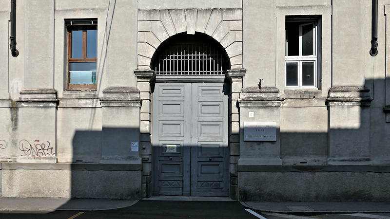 Old hospital in Crema (Italy)